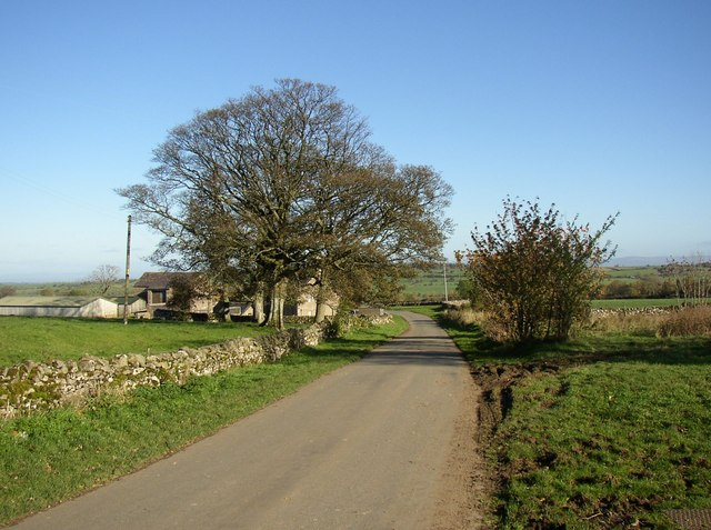 The lane through Hutton Roof, Mungrisdale CP Wham Head Farm is behind the trees.